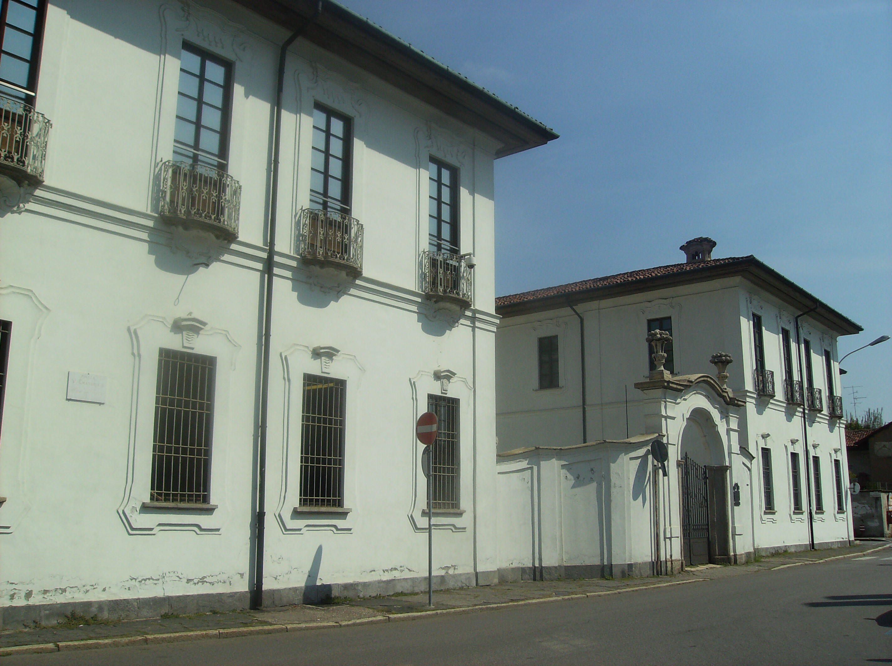 Marliani-Cicogna Palace - Busto Arsizio